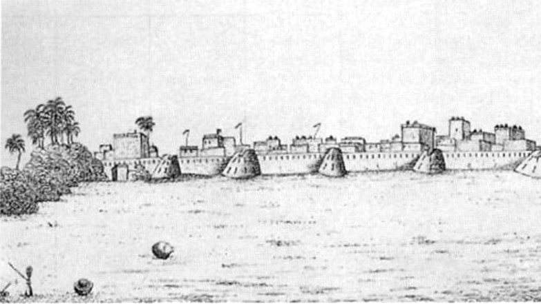 The old fort (Qasim Fort?) at Karachi, old sketch from the 1830's. No copyright owner.